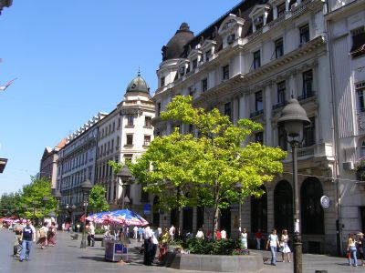 Bulding at the Knez Mihailov Street in Belgrade